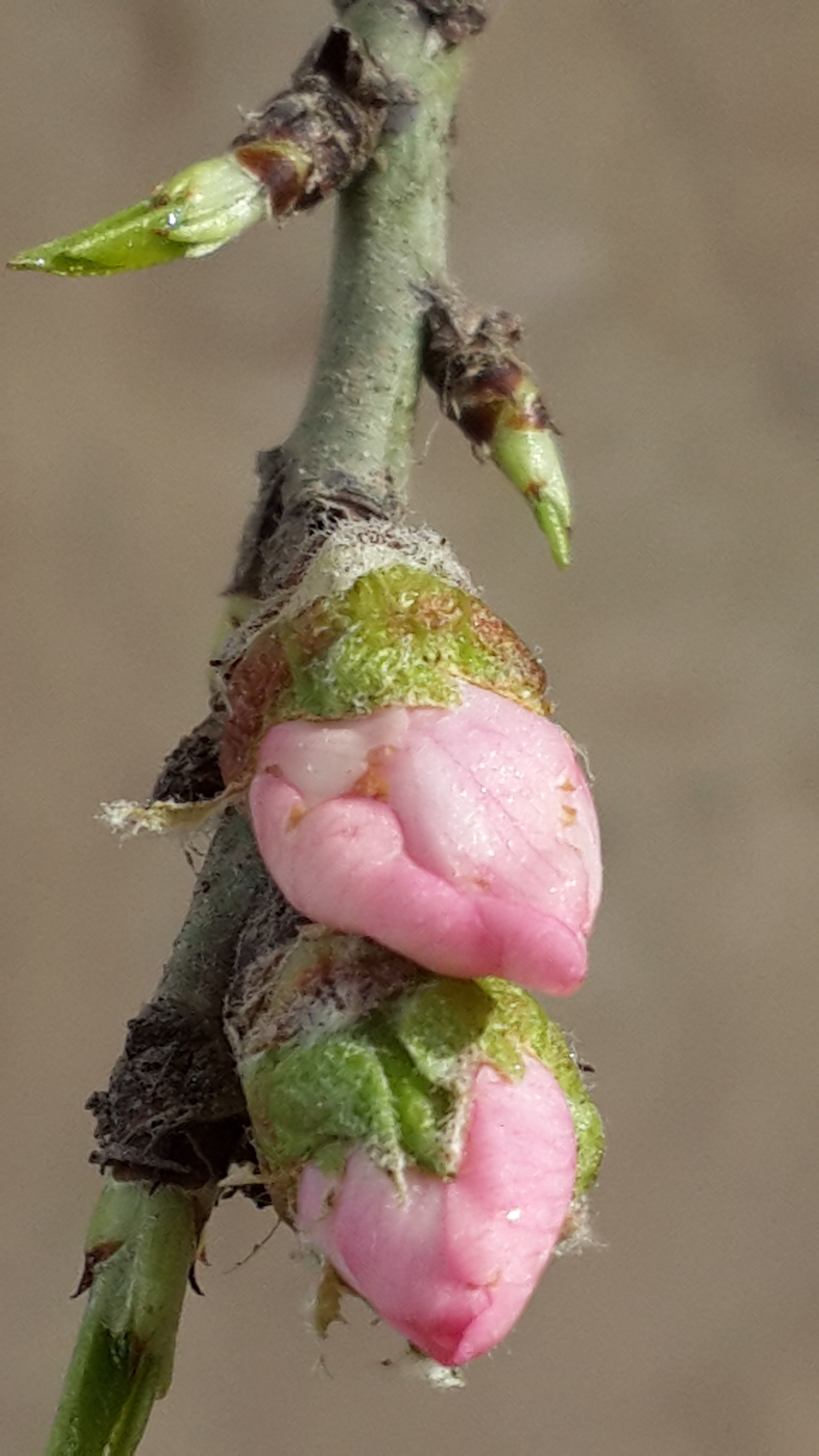 Buds of Prunus dulcis